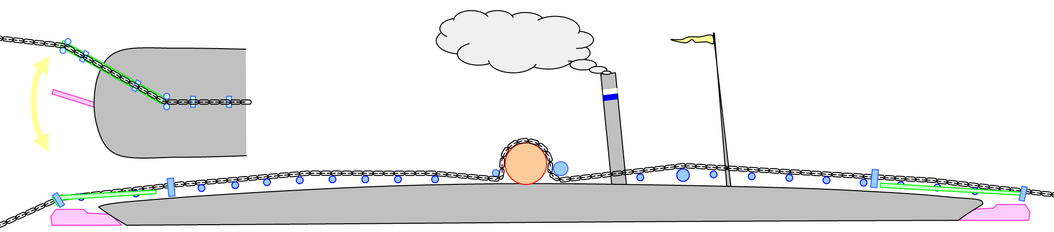 Schematic view of the operation of a chain boat